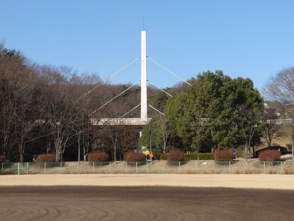 Yamanobe bridge in Sennendai park. / Hatatatedai Higashimatsuyama-city, Saitama-pref, Japan